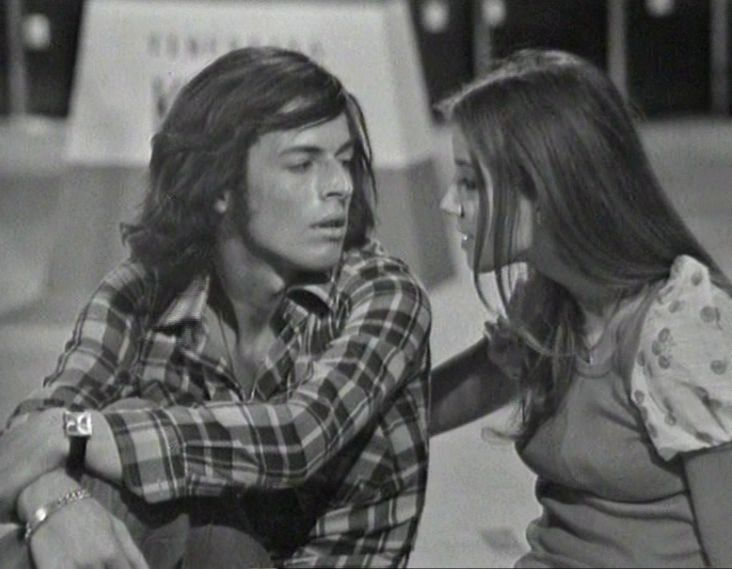 Claudio Baglioni and Paola Massari in 1972